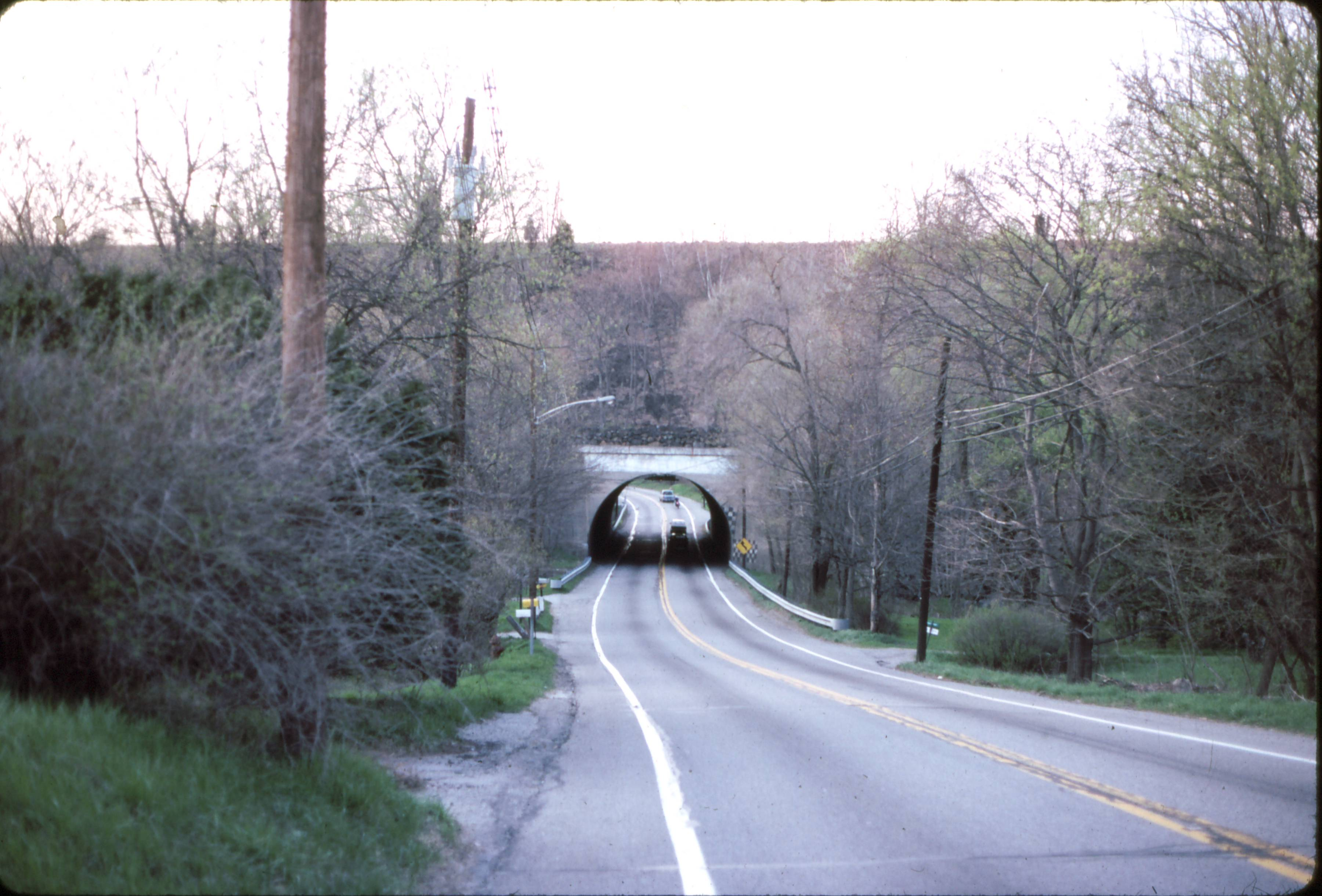 US Route 206 where it goes under the Pequest Fill on the Lackawanna Cut-Off.